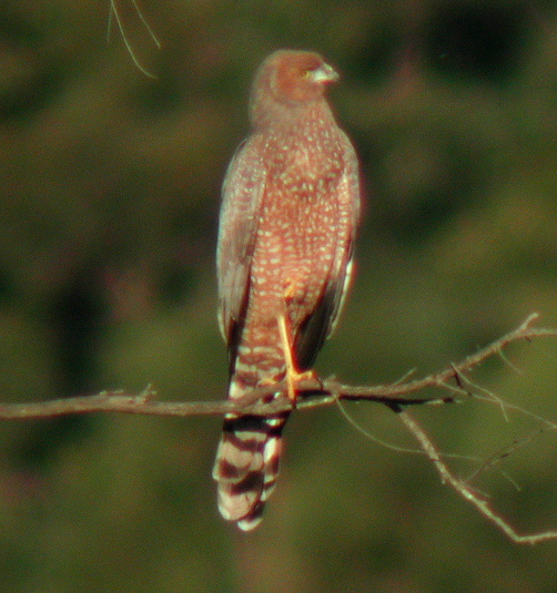 Spotted Harrier (Circus assimilis) Samsonvale, SE Queensland, Australia